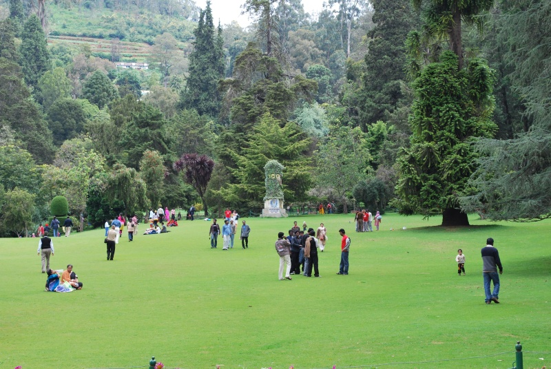 Botanical Garden at Udhagamandalam